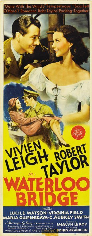 Waterloo Bridge